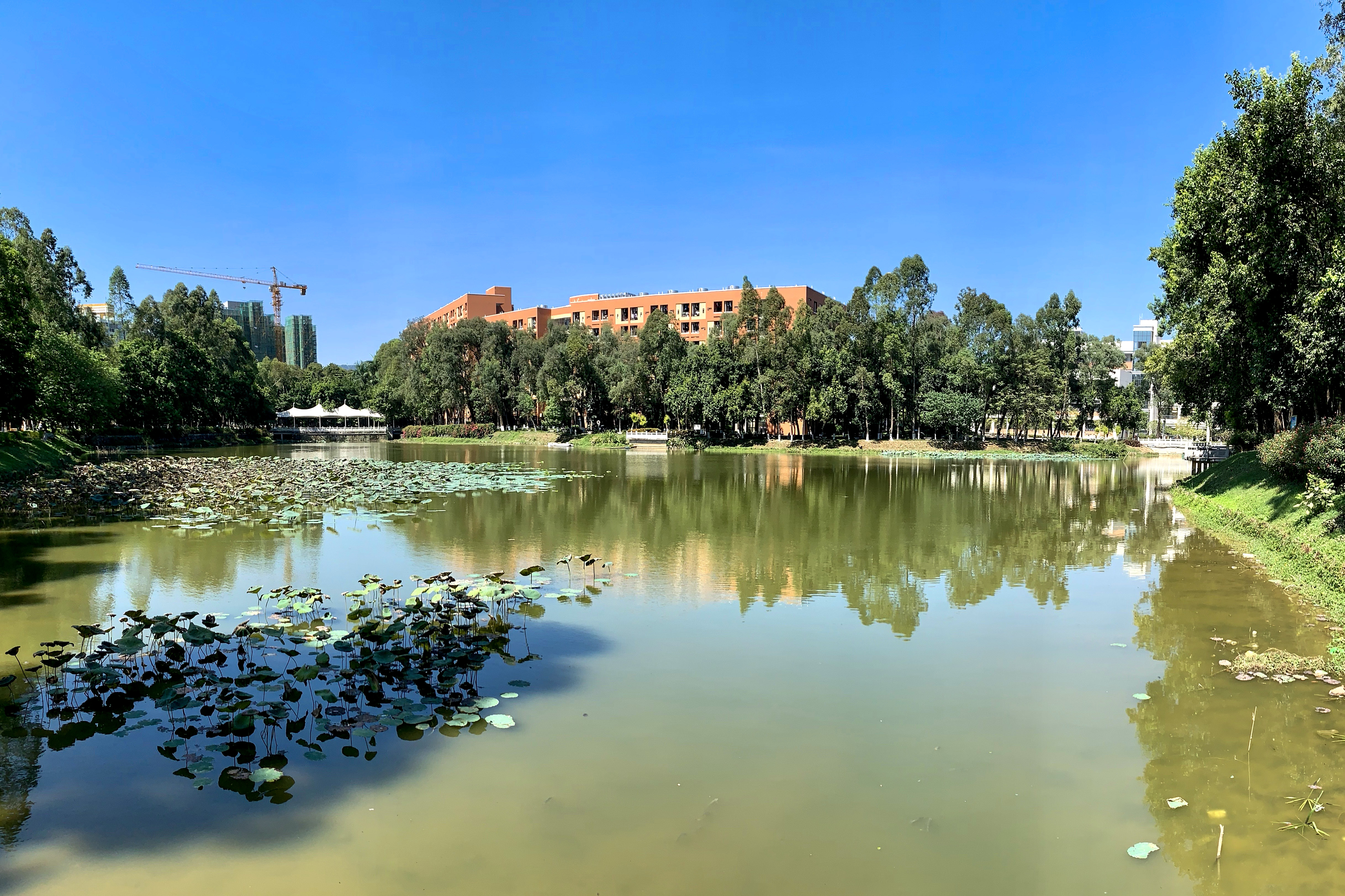 Southeast side of North Lake, South China University of Technology (SCUT) Wushan Campus (North Campus).